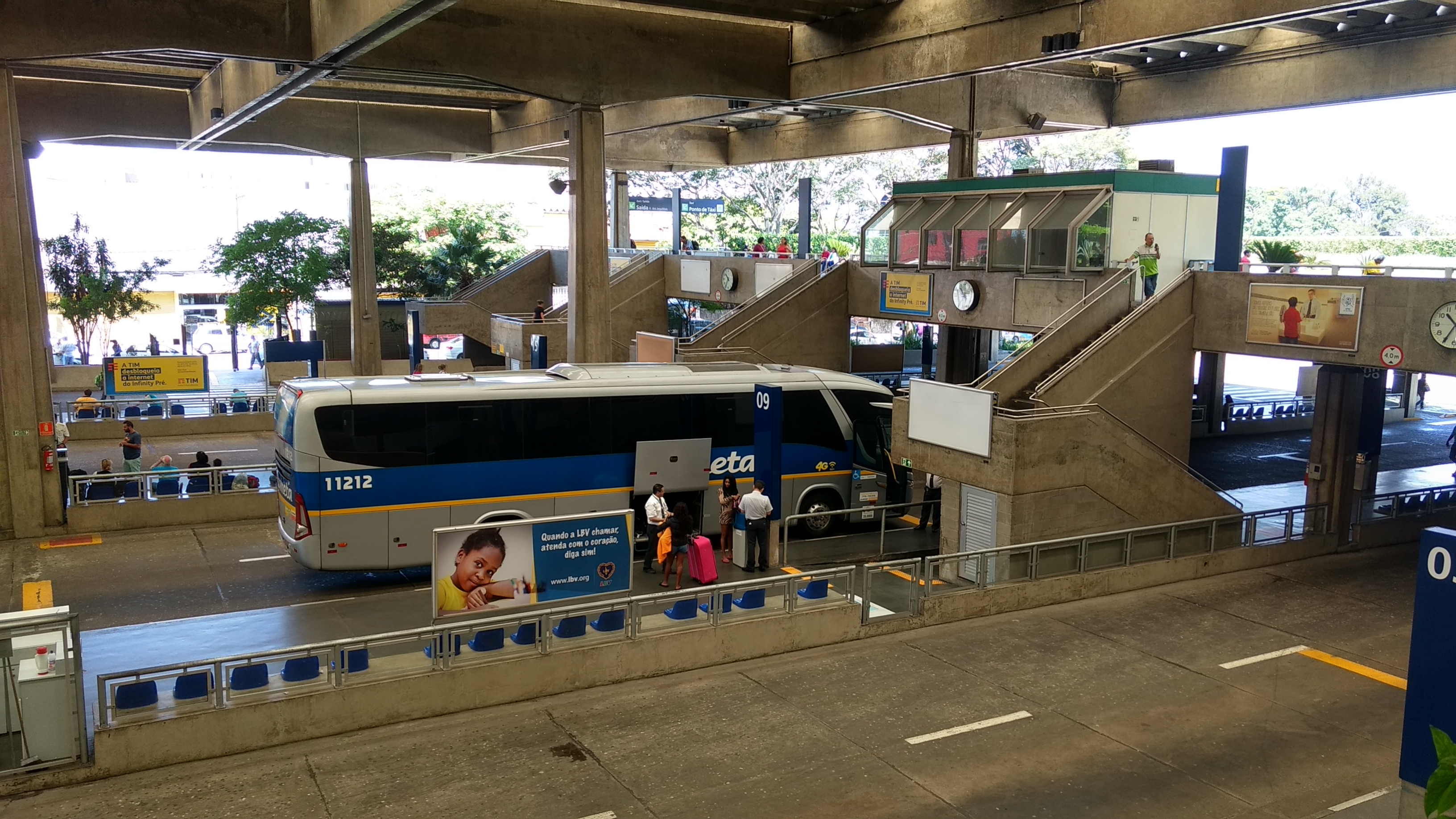 Jabaquara Intermunicipal Terminal is an intermunicipal bus terminal in São Paulo, Brazil. Along with the Tietê Bus Terminal and the Palmeiras-Barra Funda Intermodal Terminal, it is one of the most important bus terminals in the State of São Paulo.